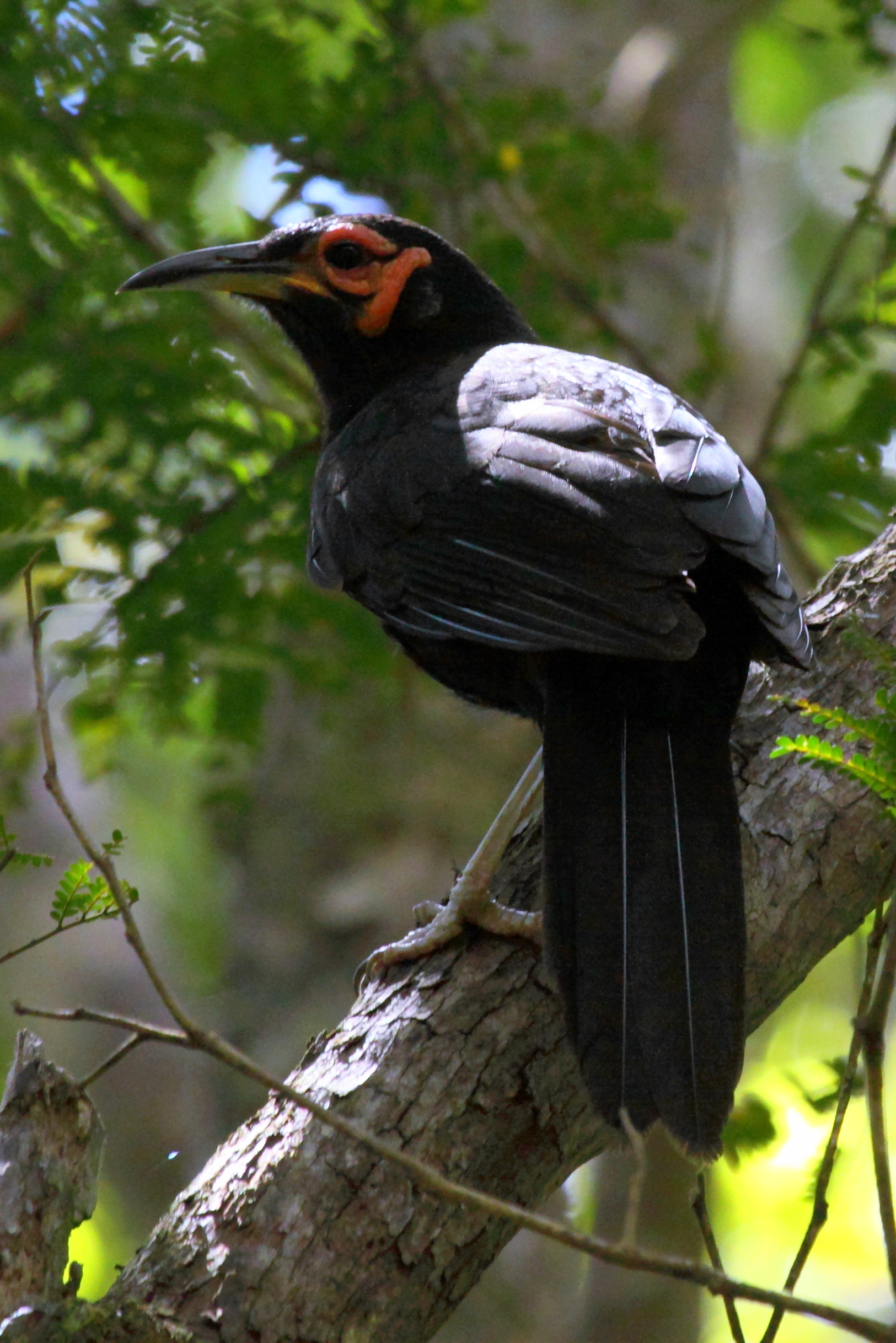 Crow Honeyeater Gymnomyza aubryana at the Parc Provincial de la Rivière Bleue, New Caledonia, 20th September 2011